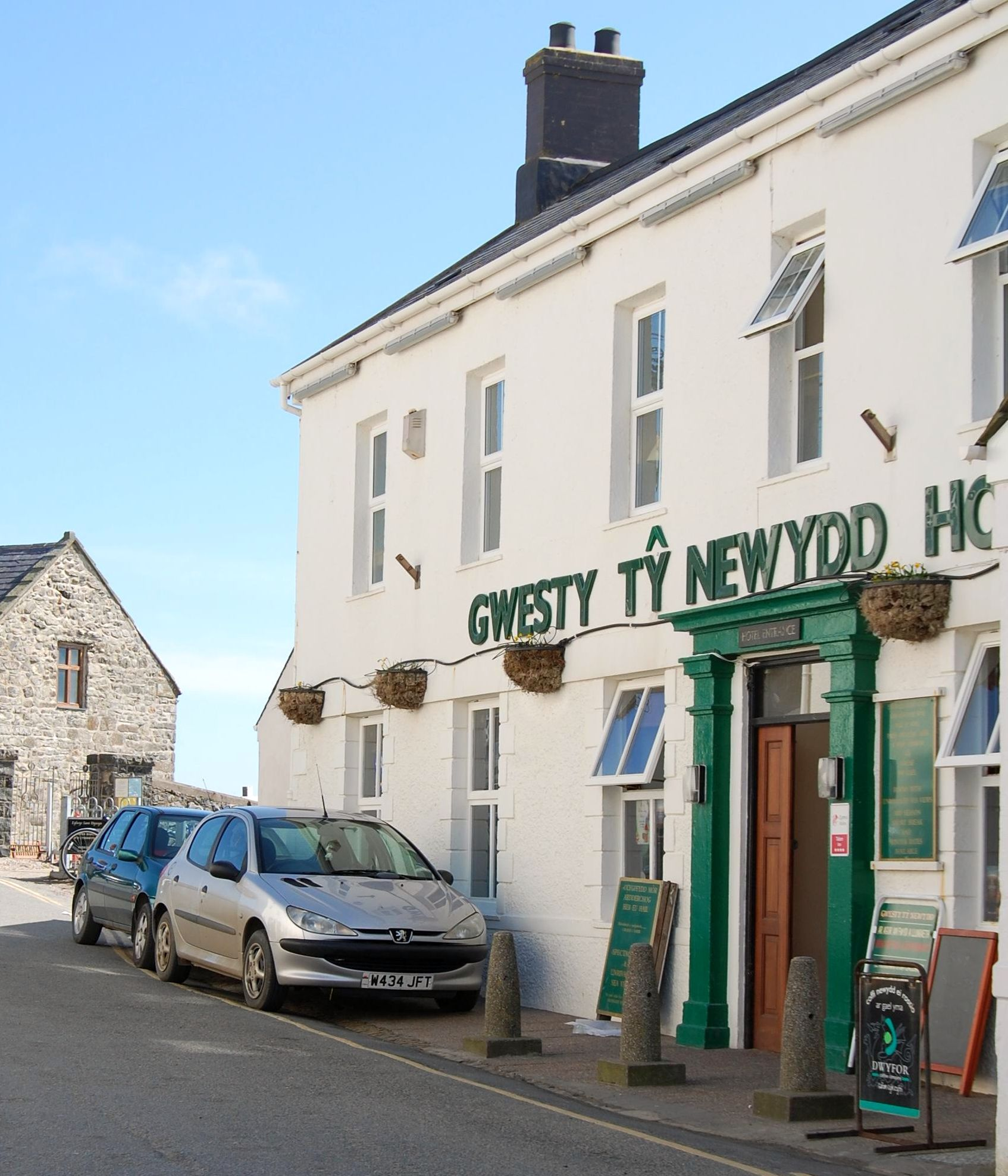 Gwesty Tŷ Newydd, the Tŷ Newydd Hotel, at Aberdaron with St Hywyn's Church visible in the background